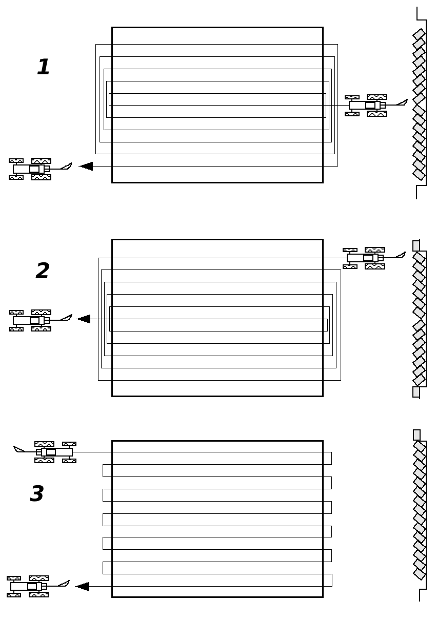 Techniques of ploughing: 1) Gathering method. 2) Casting method. 3) Contour ploughing with reversible plough